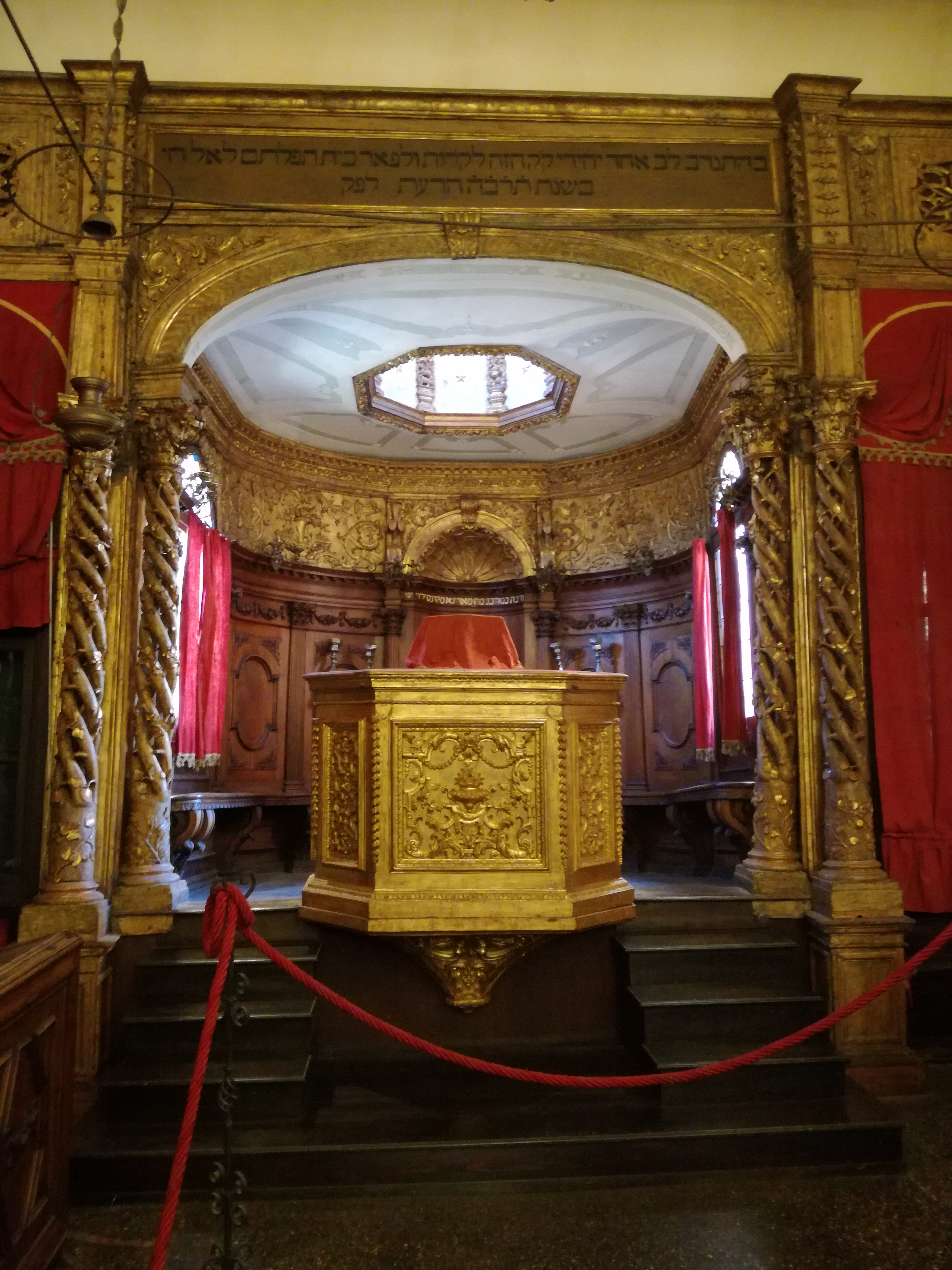 Picture of the bimah inside the Canton Synagogue (Venice). Eighteenth century.